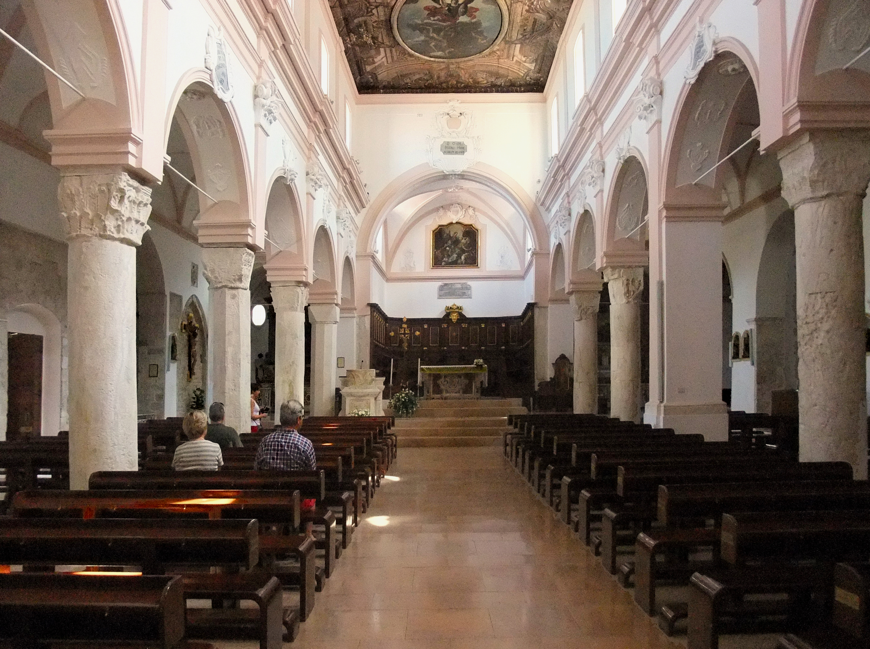 Interior of Cathedral in Vieste, Apulia, southern Italy